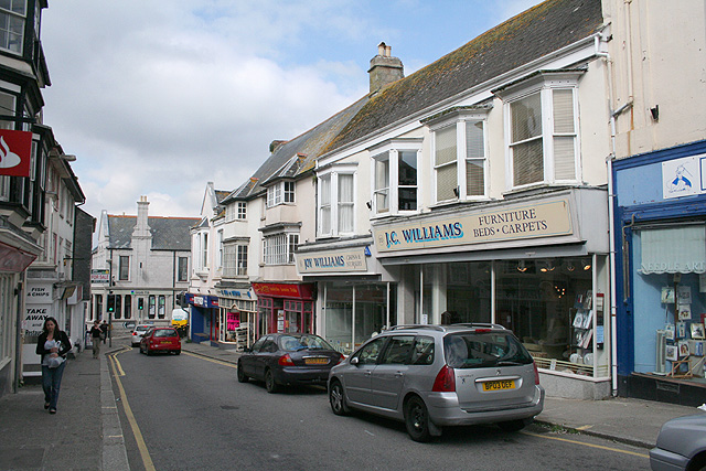 Helston: Meneage Street At the northern end of the street, near its junction with Wendron Street: east side shopfronts. Lloyds TSB bank at the foot, at 1 Market Place